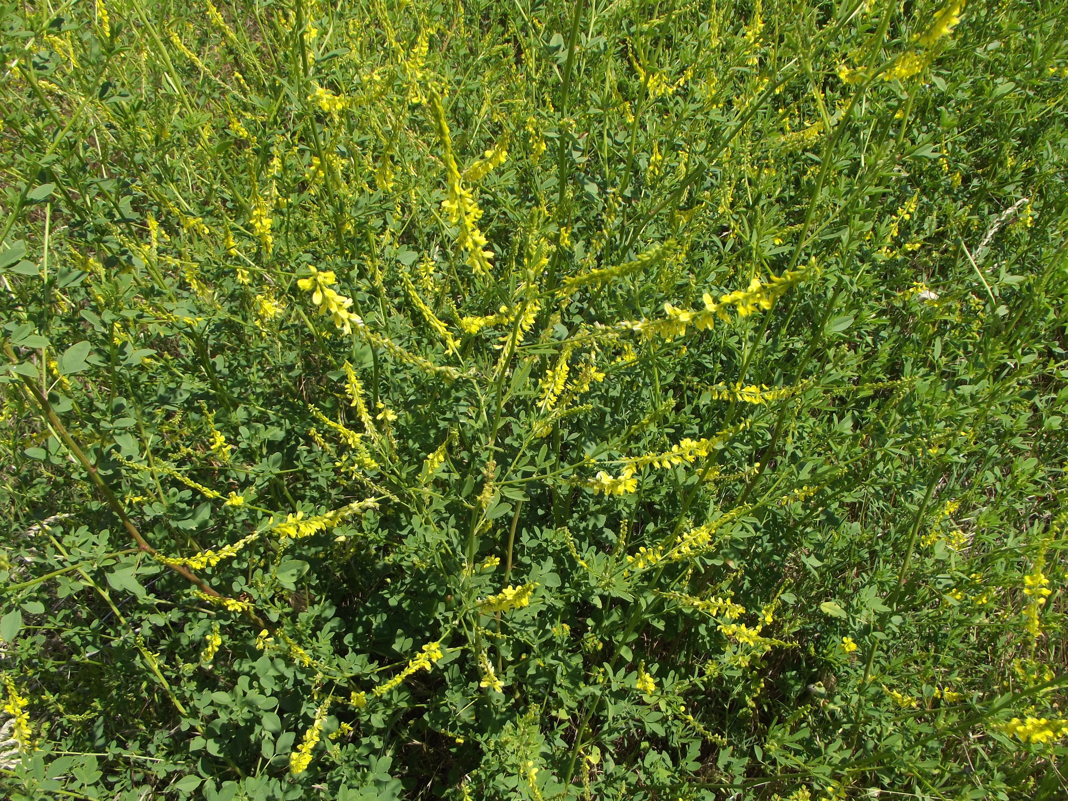 Melilotus officinalis